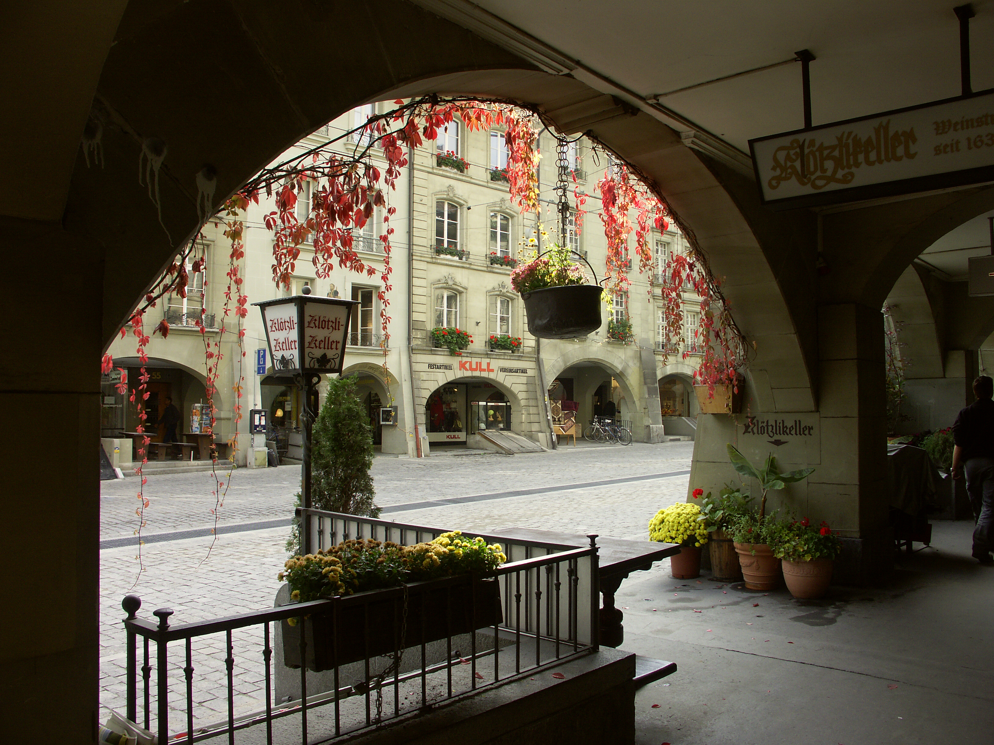 Bern old town / Gerechtigkeitsgasse